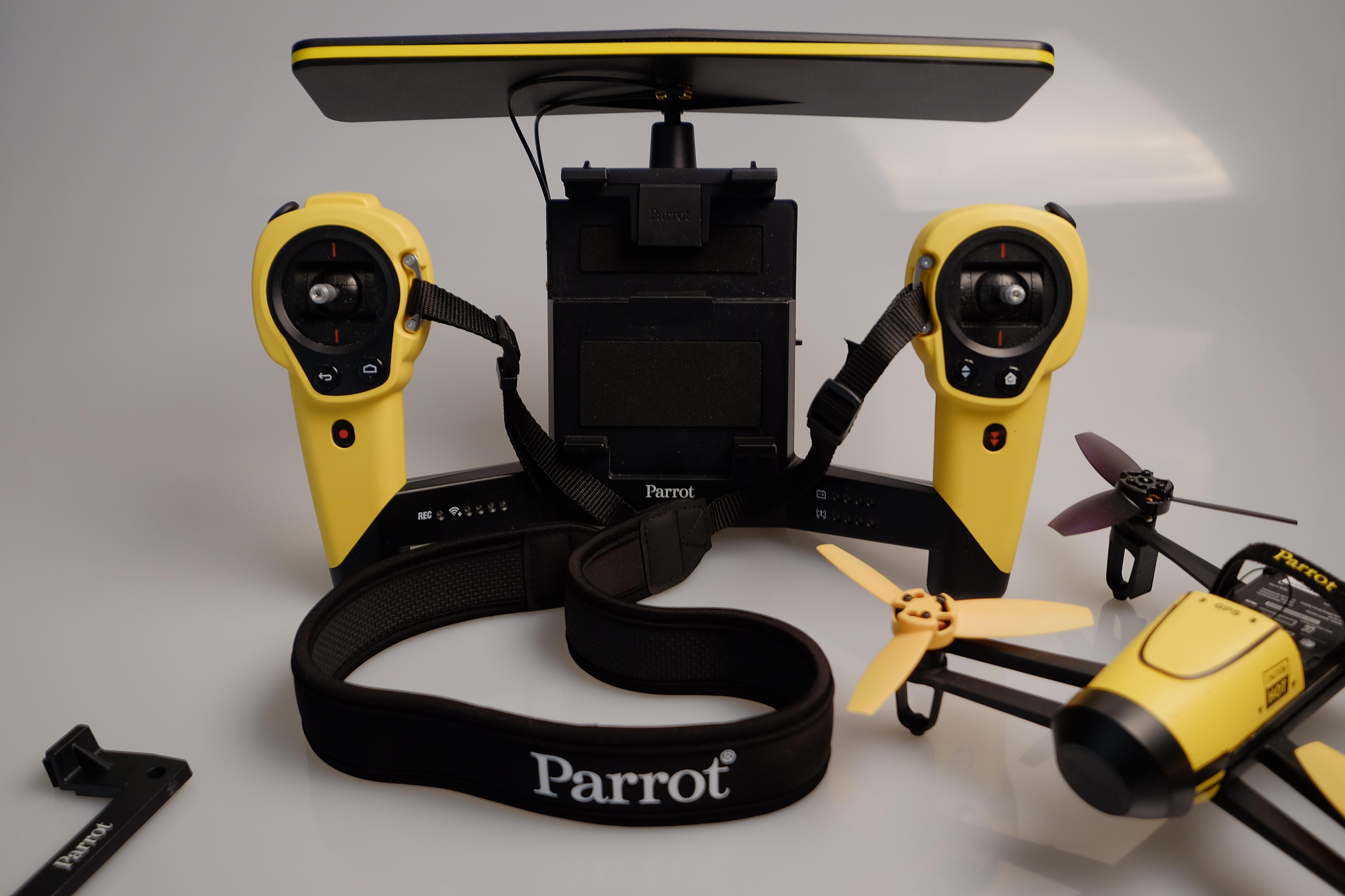 PARROT Parrot Bebop Drone first version (2014) in yellow